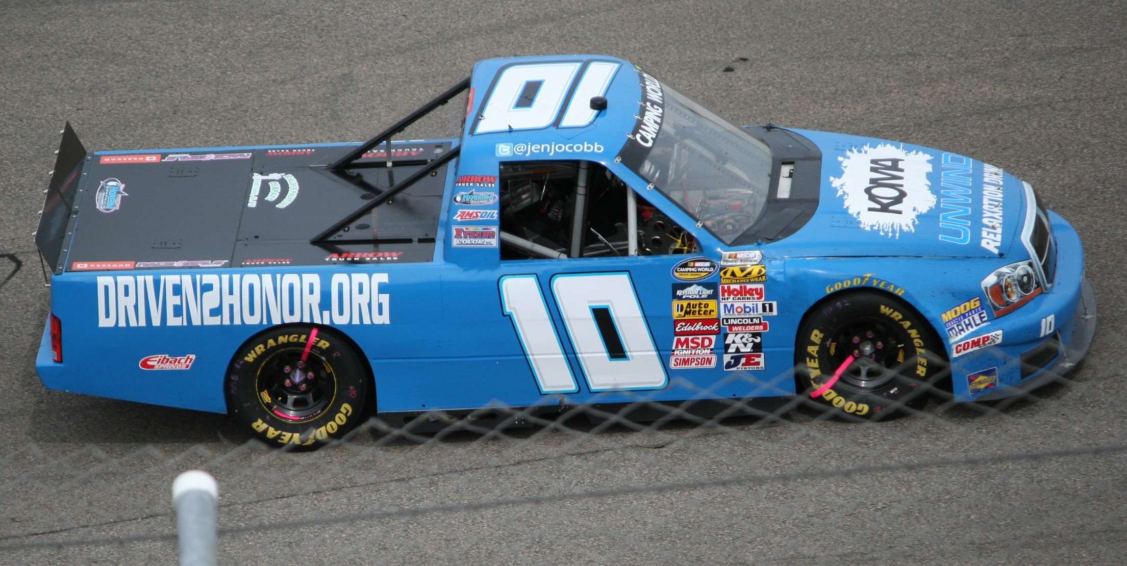 Jennifer Jo Cobb drives her No. 10 Koma Unwind Relaxation Drink RAM during the North Carolina Education Lottery 200 at Rockingham Speedway, Rockingham, NC, April 14, 2013